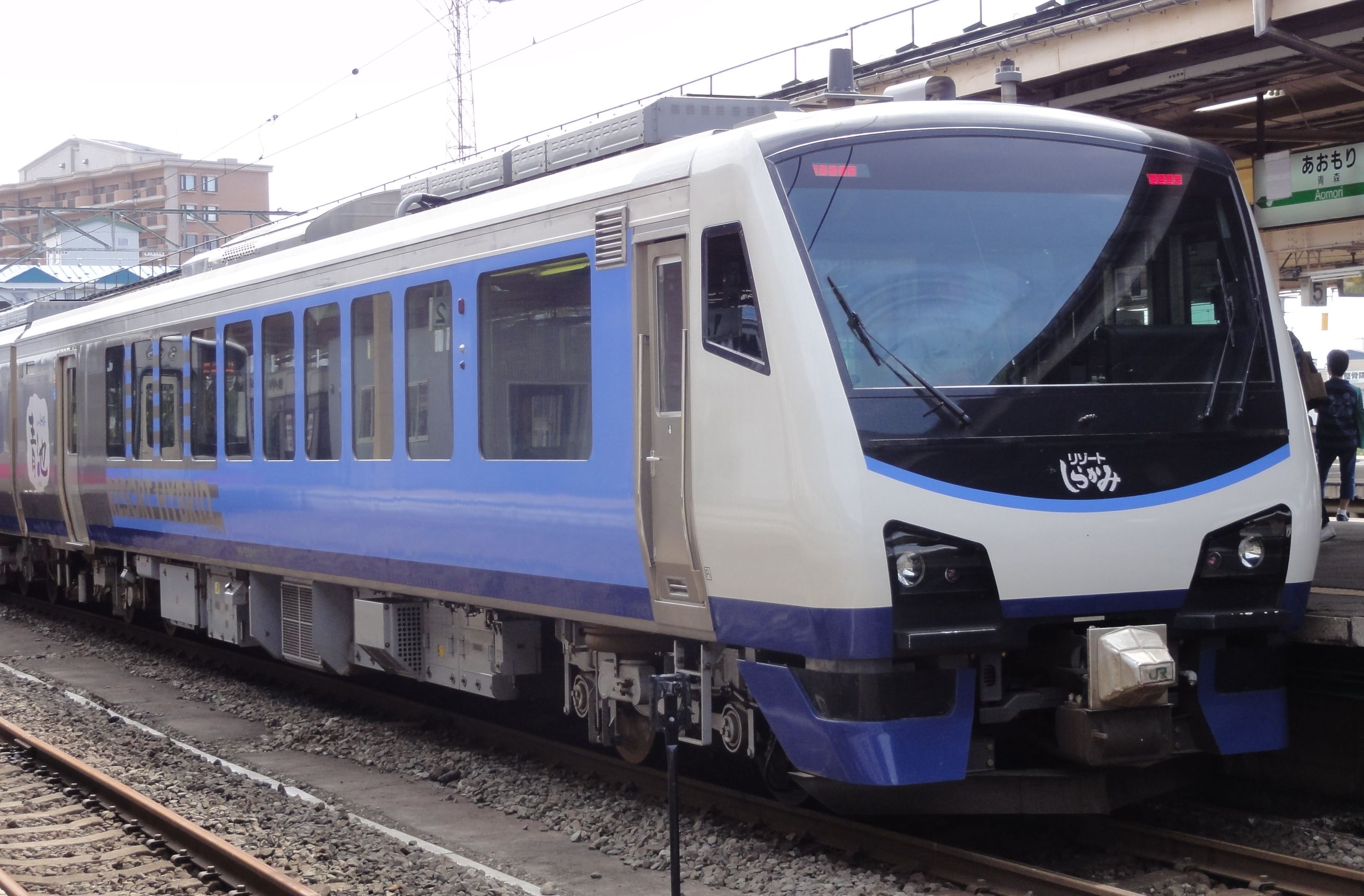 JR East HB-E300 series 4-car "Resort Shirakami - Aoike" hybrid diesel unit at Aomori Station